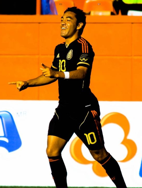 Mexican player Marco Fabian